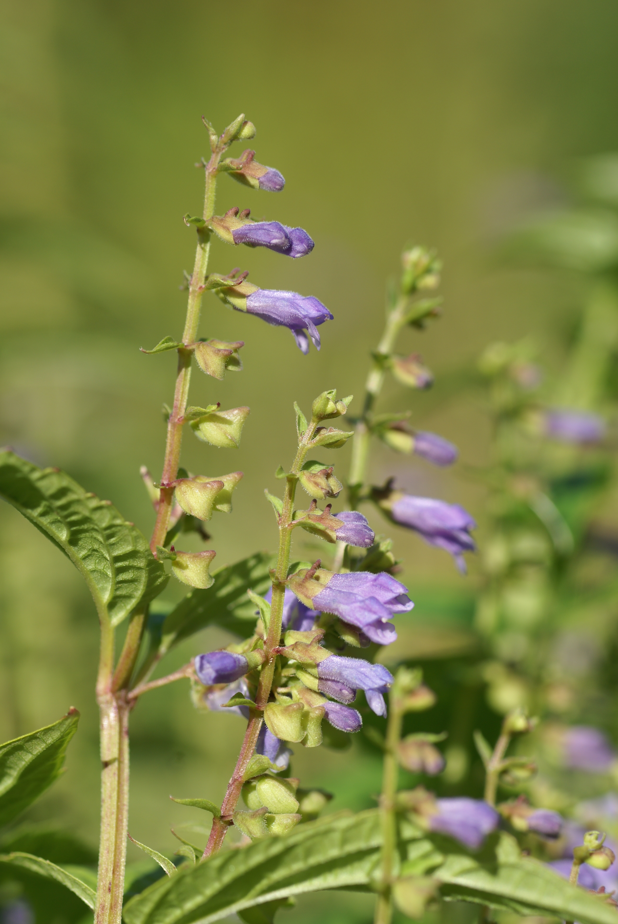 Plant species Scutellaria lateriflora in botanical garden in Helsinki city.